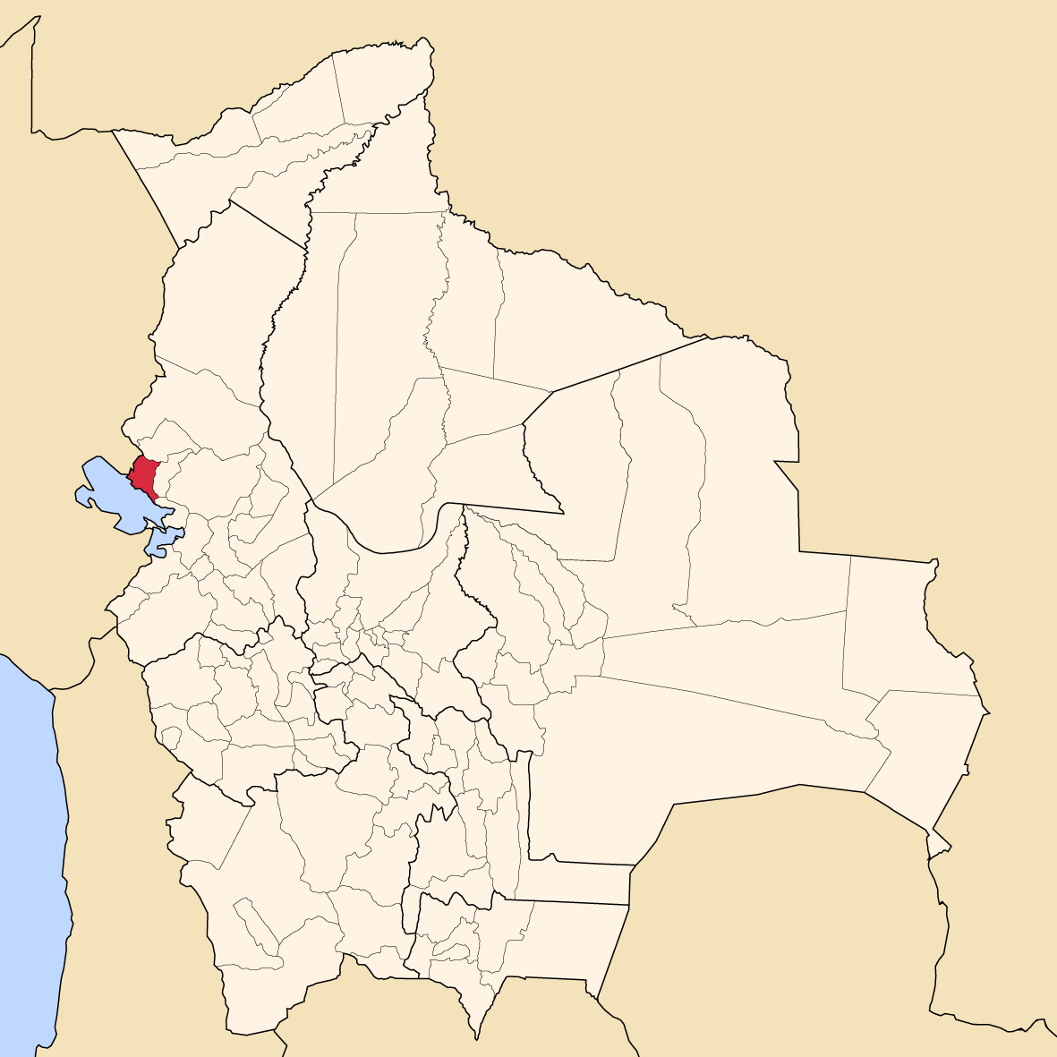 Map of Bolivia showing Eliodoro Camacho province, La Paz